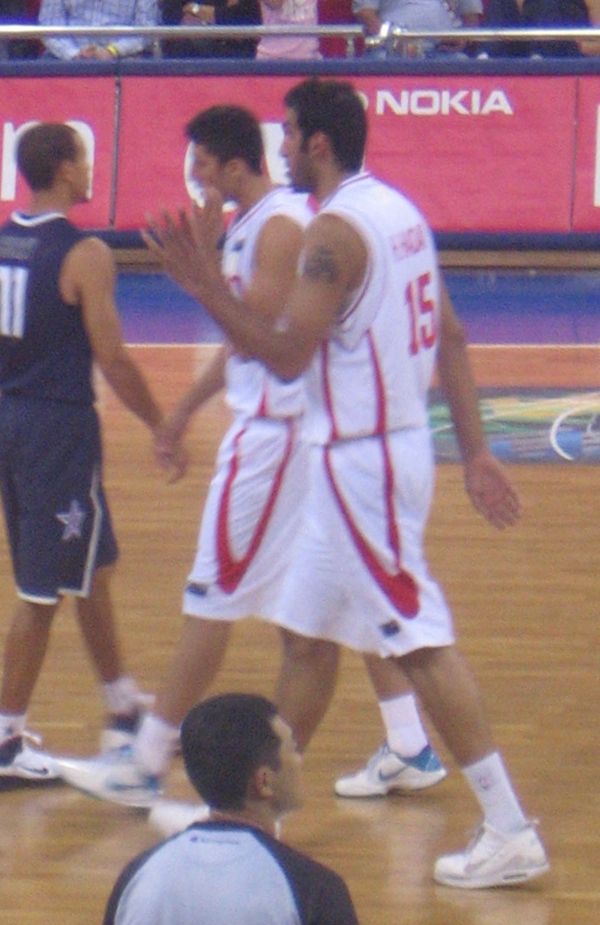 Hammed Haddadi Iranian Bascketball player in NBA 2010 Backetball Worldcup 2010